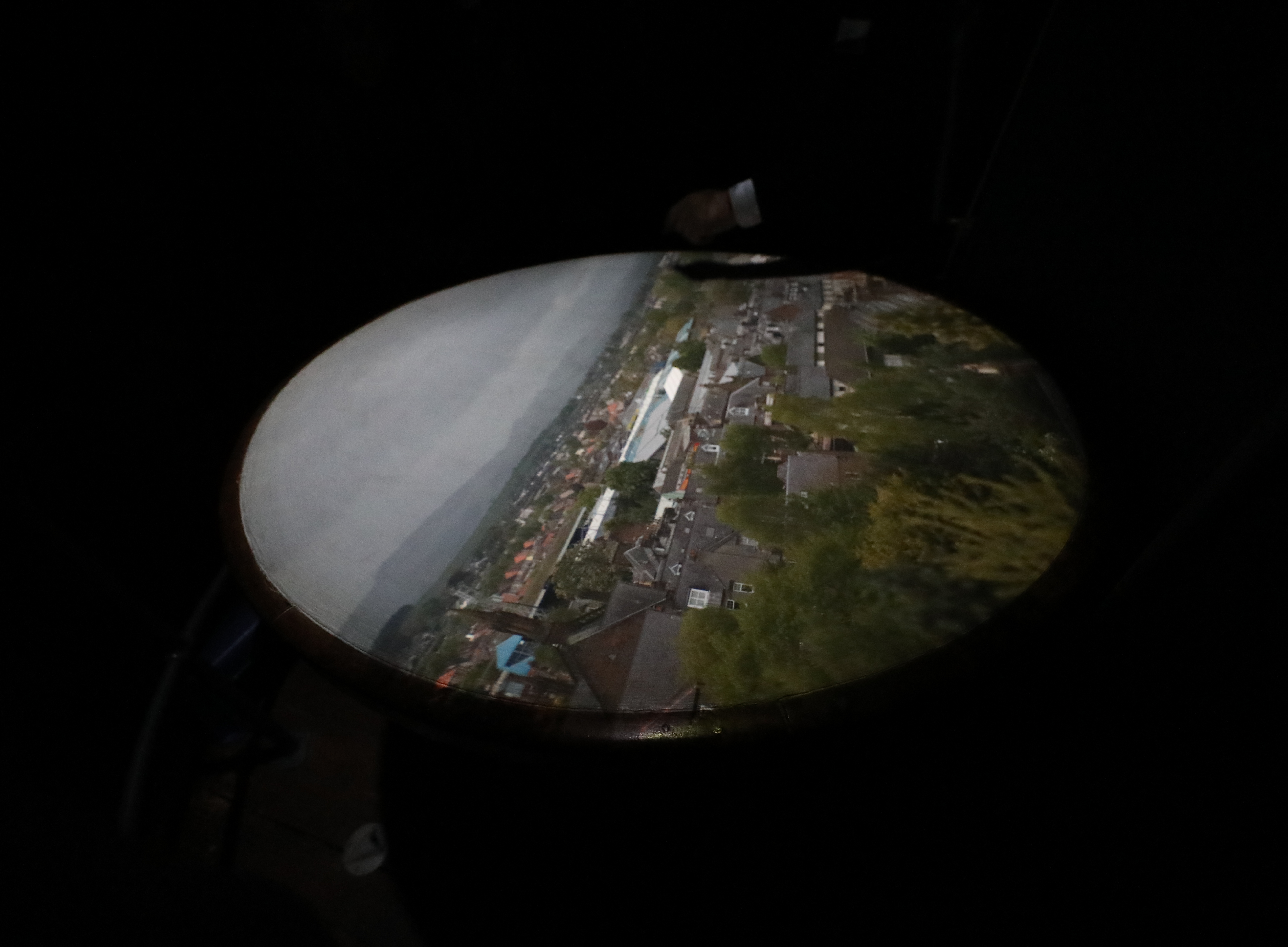 Photo of an image projected onto the focusing table of the Dumfries Museum Camera Obscura